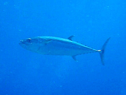 Gymnosarda unicolor near a reef near Safaga, Red sea.